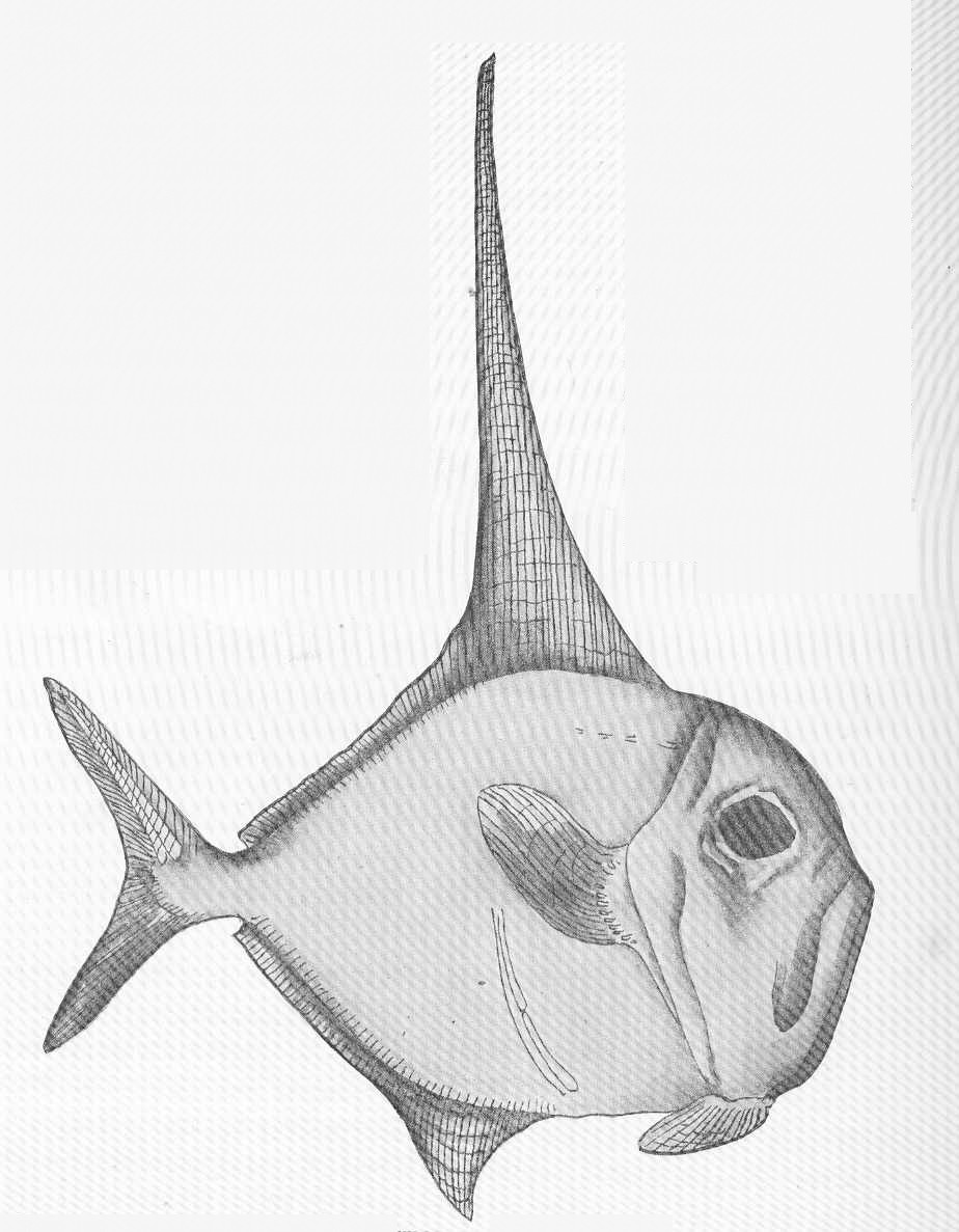 Dorypterus hoffmani Germar, restored Subject: Dorypterus Tag: Fish